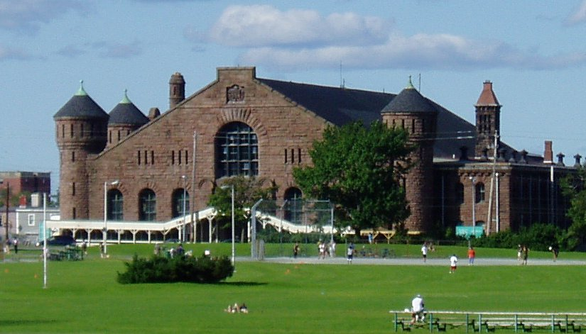 The Halifax Armoury, taken by SimonP